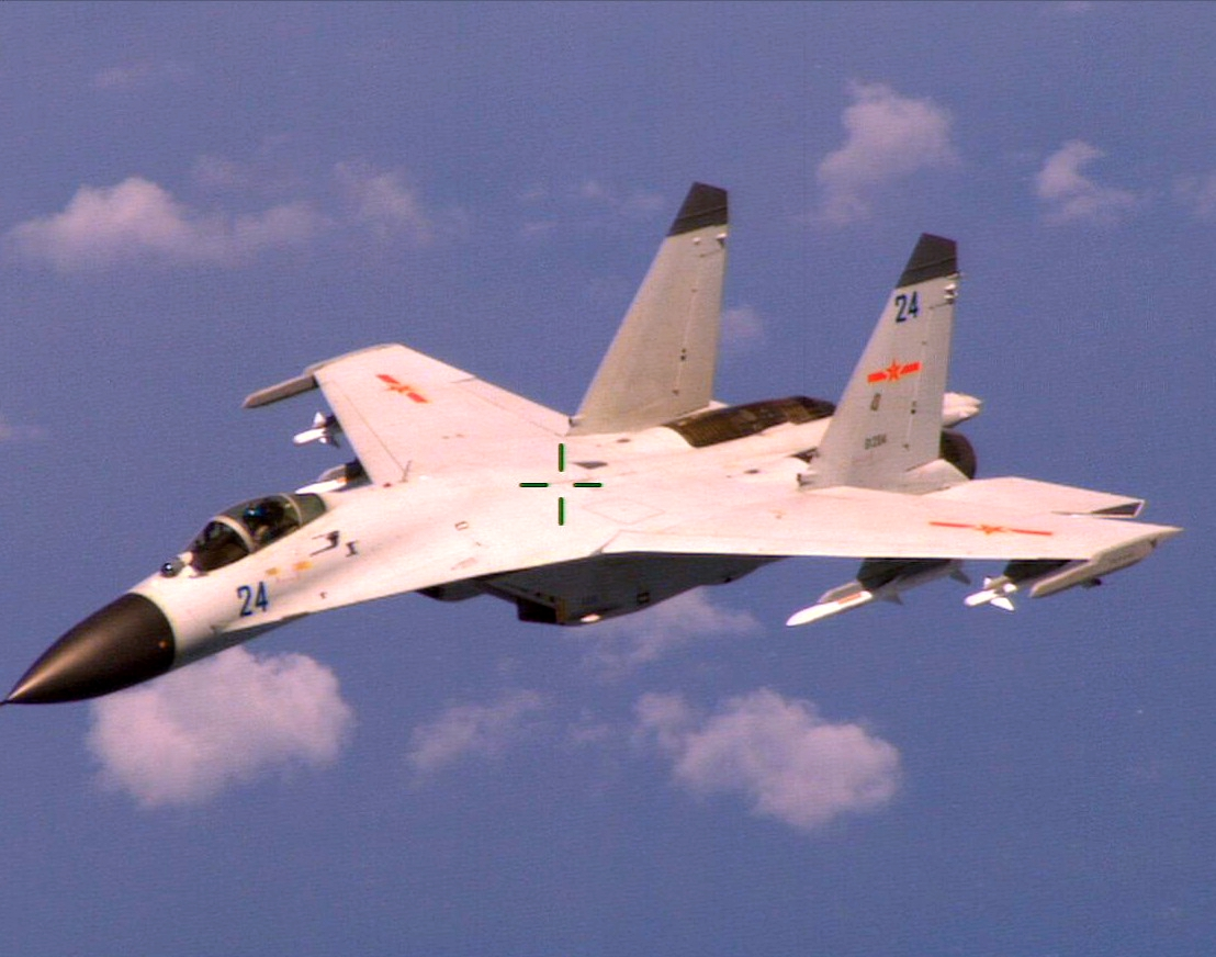 An armed Chinese Shenyang J-11 fighter jet flies near a U.S. Navy Boeing P-8A Poseidon patrol aircraft over the South China Sea about 220 km east of Hainan Island in international airspace.